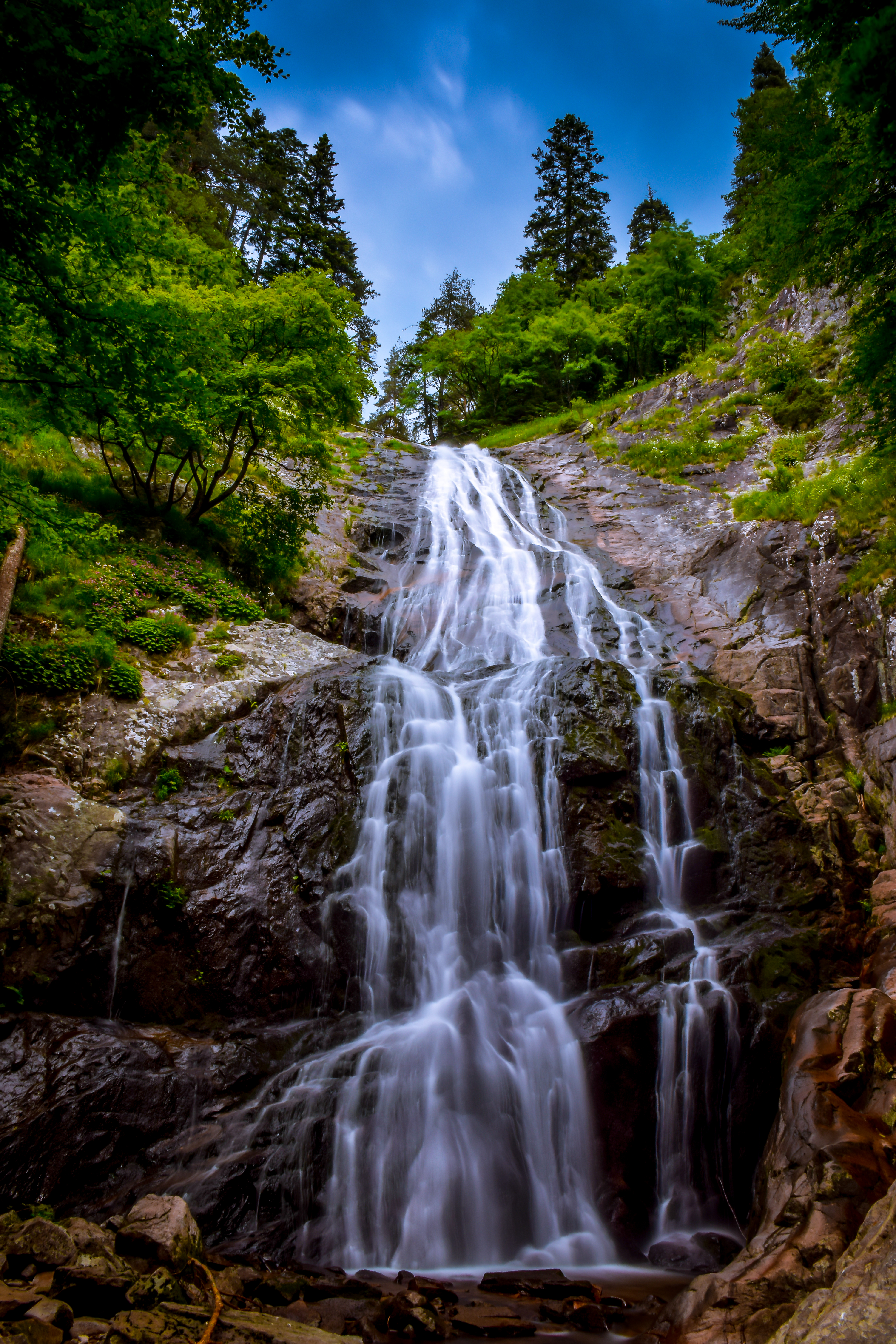 The Orpheus Waterfall in Soskovcheto Nature Reserve, Bulgaria